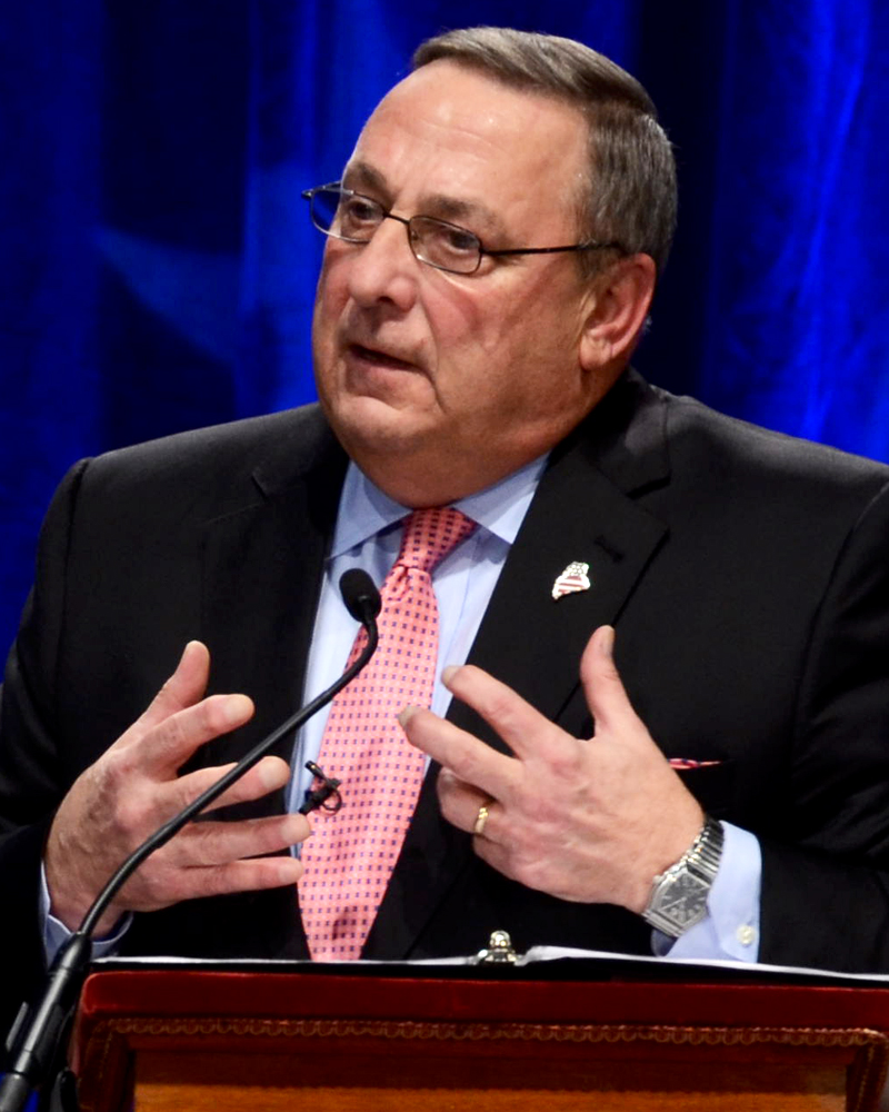 Paul LePage at his second inaugural address. Photo taken by Matthew Gagnon.